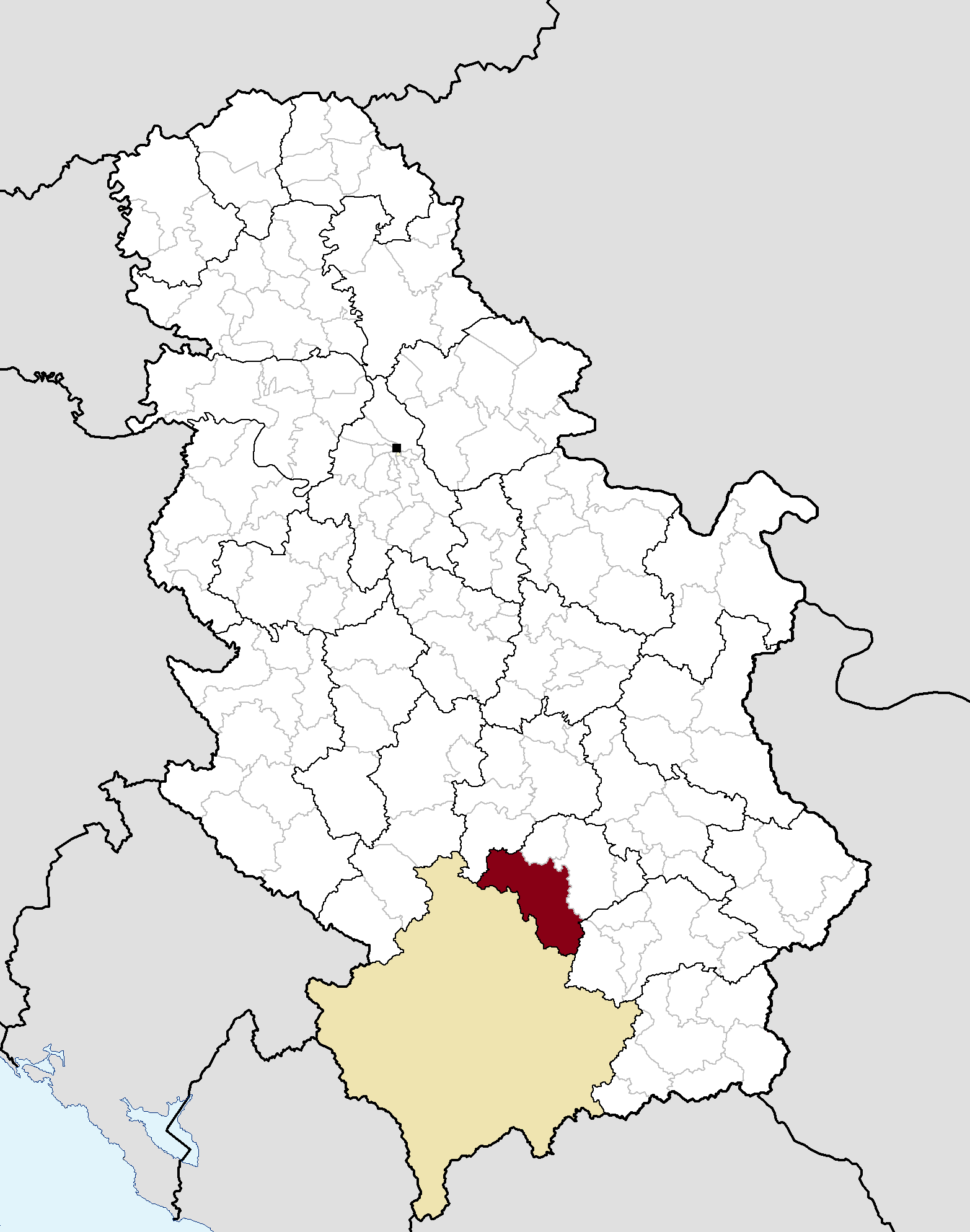 Municipal location in Serbia